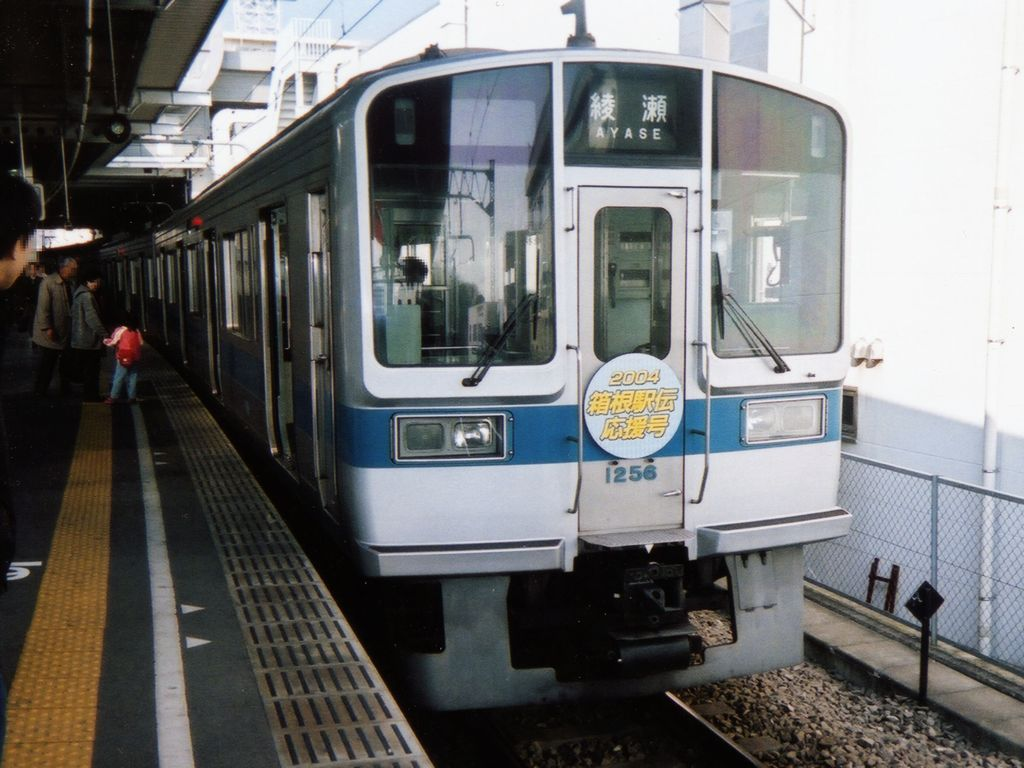 Odakyu Electric Railway Company, EMU Type 1000 No.1256 at Hadano Sta.